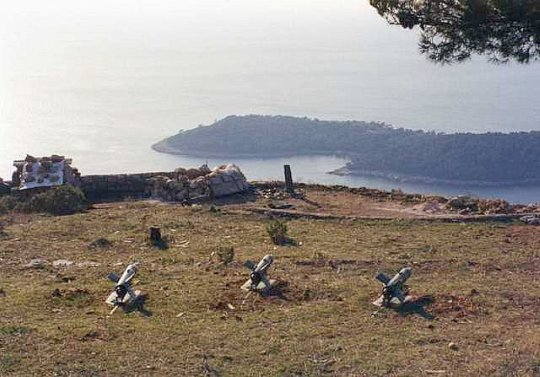 Rockets in a Serbian placement overlooking Dubrovnik and the Adriatic coast. One of a set here